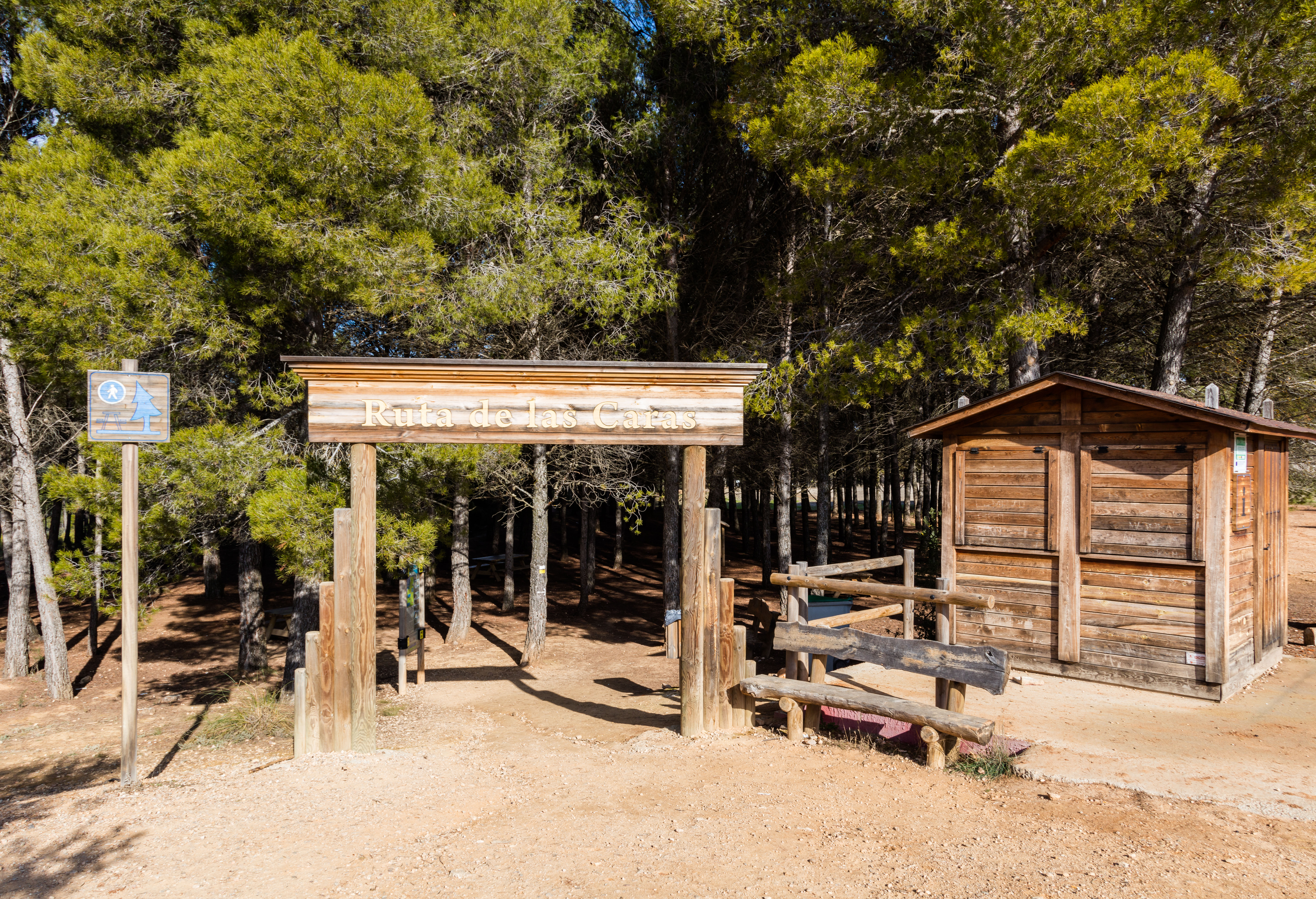 Ruta de las Caras, Cuenca, Spain